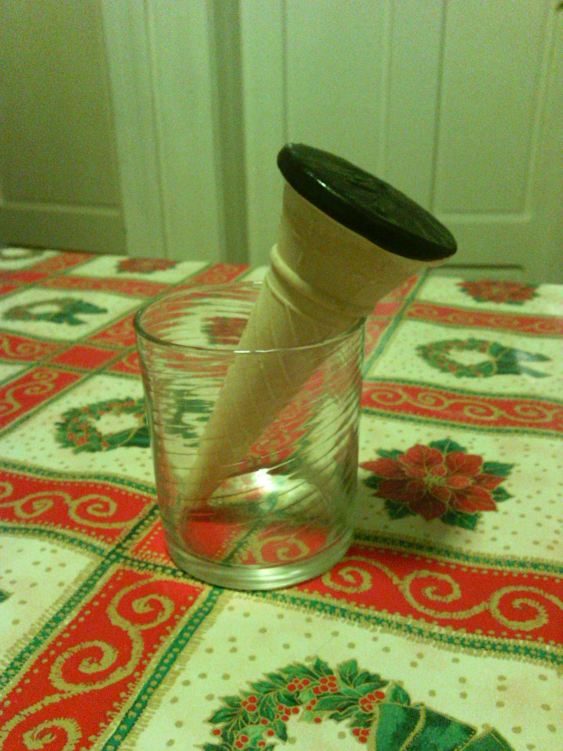 Winter ice cream (téli fagyi) in Hungary. A popular snack in communist times. Manufacturer: Linzer Kft.